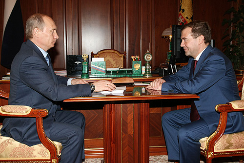 THE KREMLIN, MOSCOW. With Prime Minister Vladimir Putin.